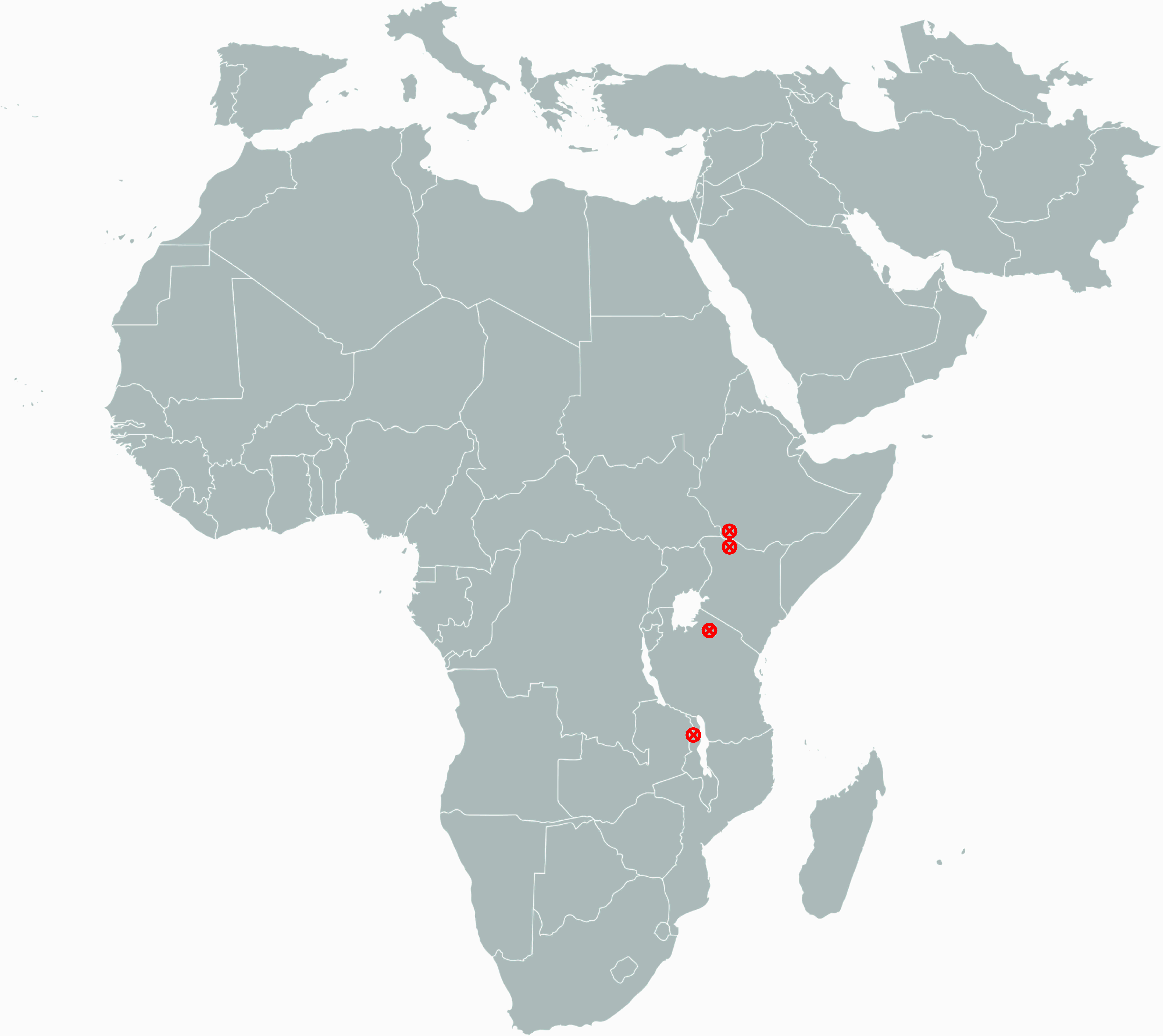 Paranthropus (Australopithecus) boisei paleoanthropological sites in Malawi, Tanzania, Kenya and Ethiopia (Malema, Olduvai, Lake Turkana - Koobi Fora, Omo)